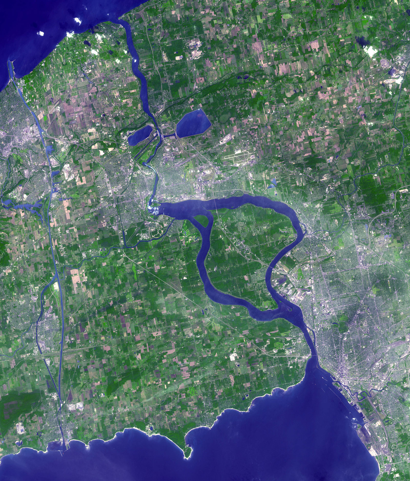 Satellite image of the Niagara River, produced by NASA; acquired by the ASTER sensor on NASA's Terra satellite, September 8, 2001.